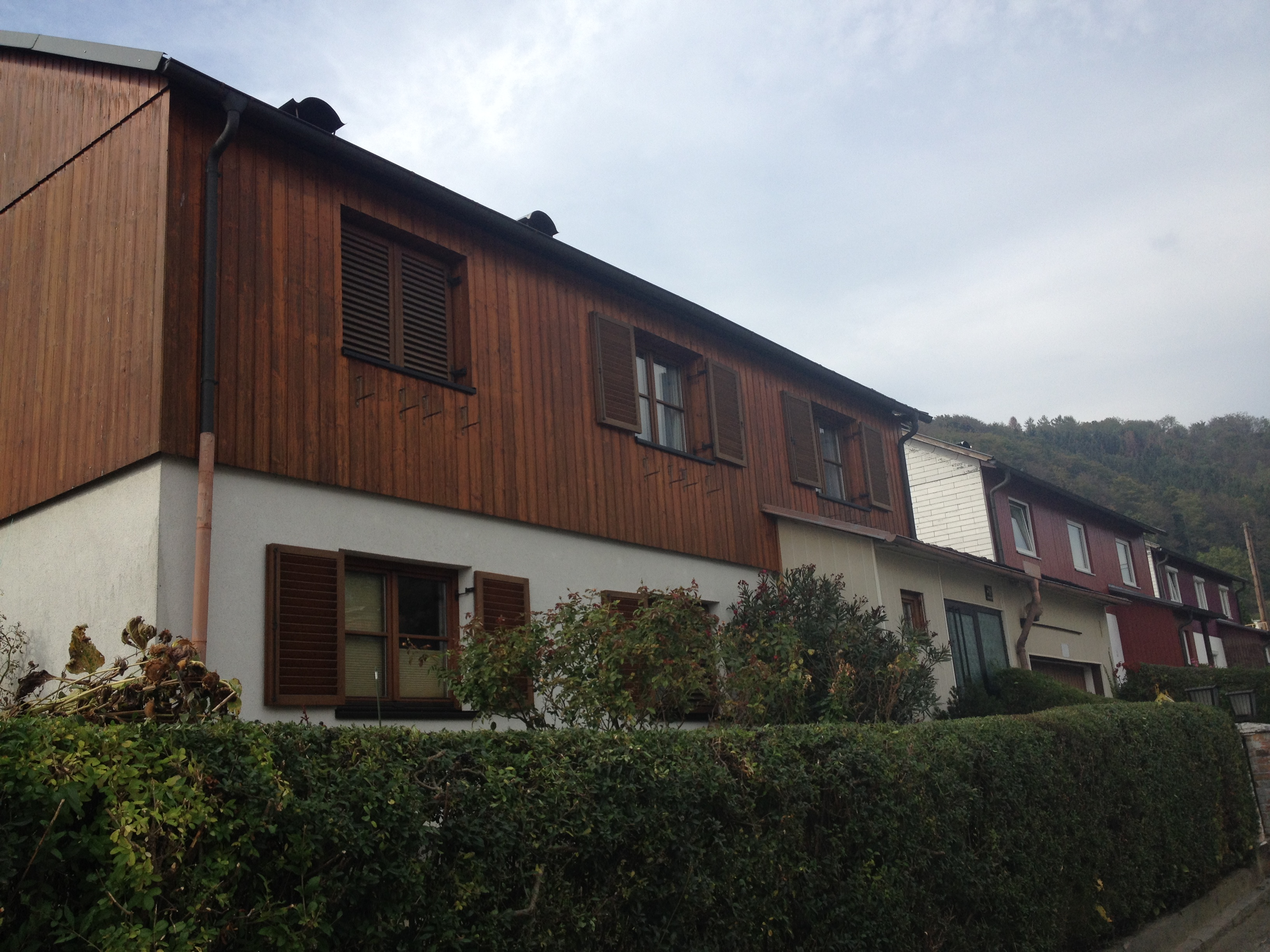 houses in Uppsalaweg